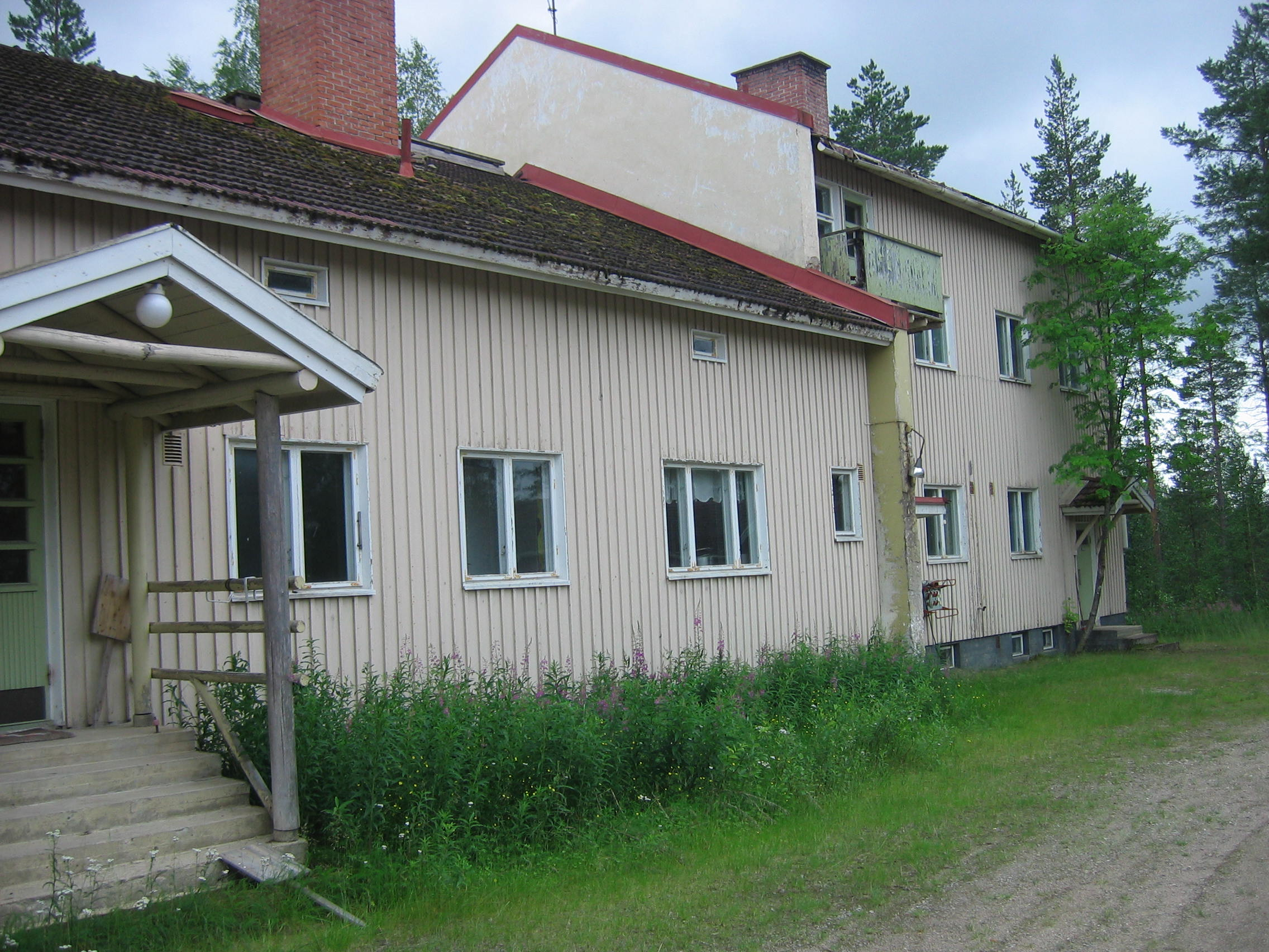 The former school building in Keinäsperä, Pudasjärvi, Finland.